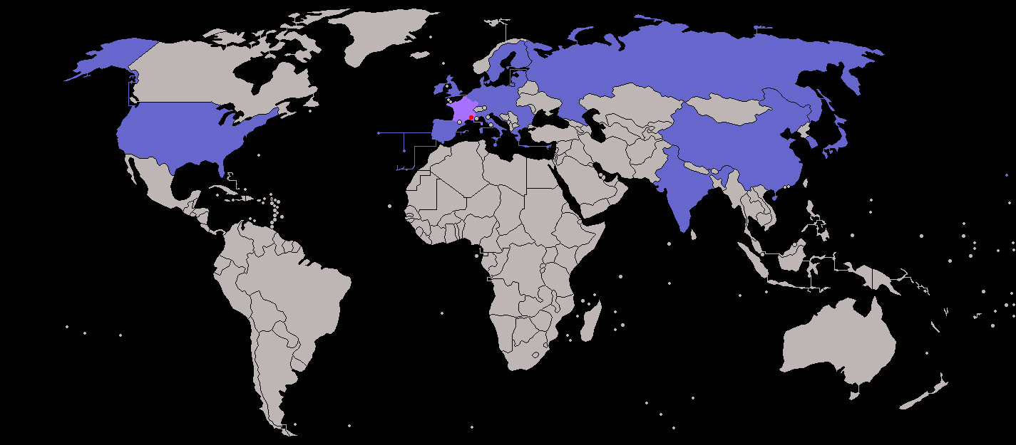 Map of ITER participants - not showing overseas territories of the EU. (France and Cadarache -the host location - highlighted)